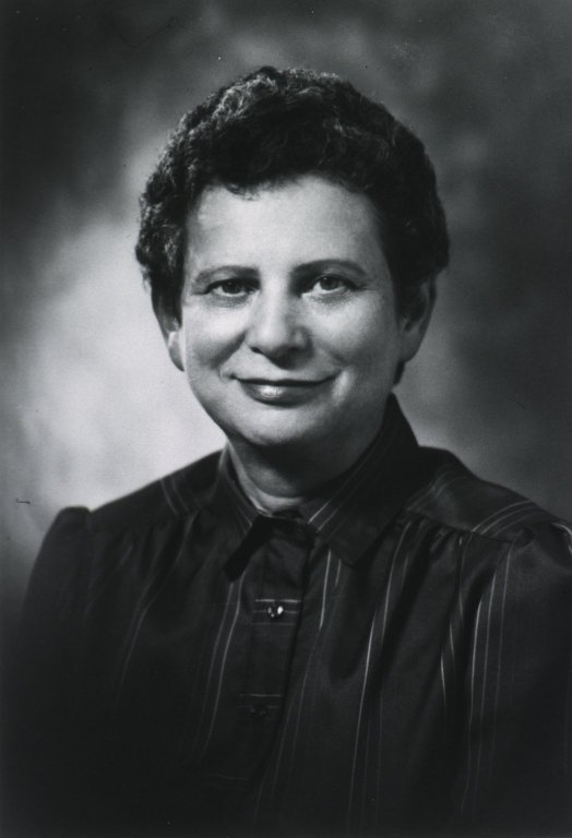 1982 Lasker Award winner, Dr Elizabeth Fondal Neufeld.